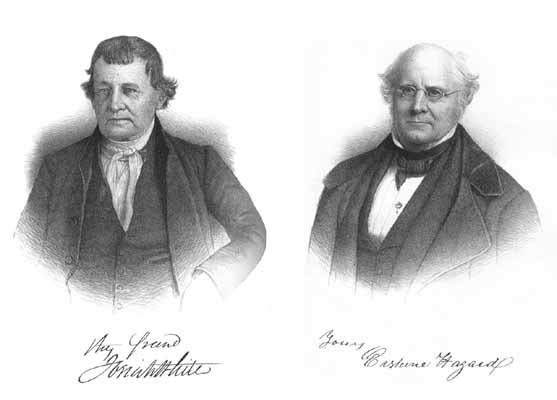 Josiah White(1780-1850) and Erskine Hazard(1790-1865)